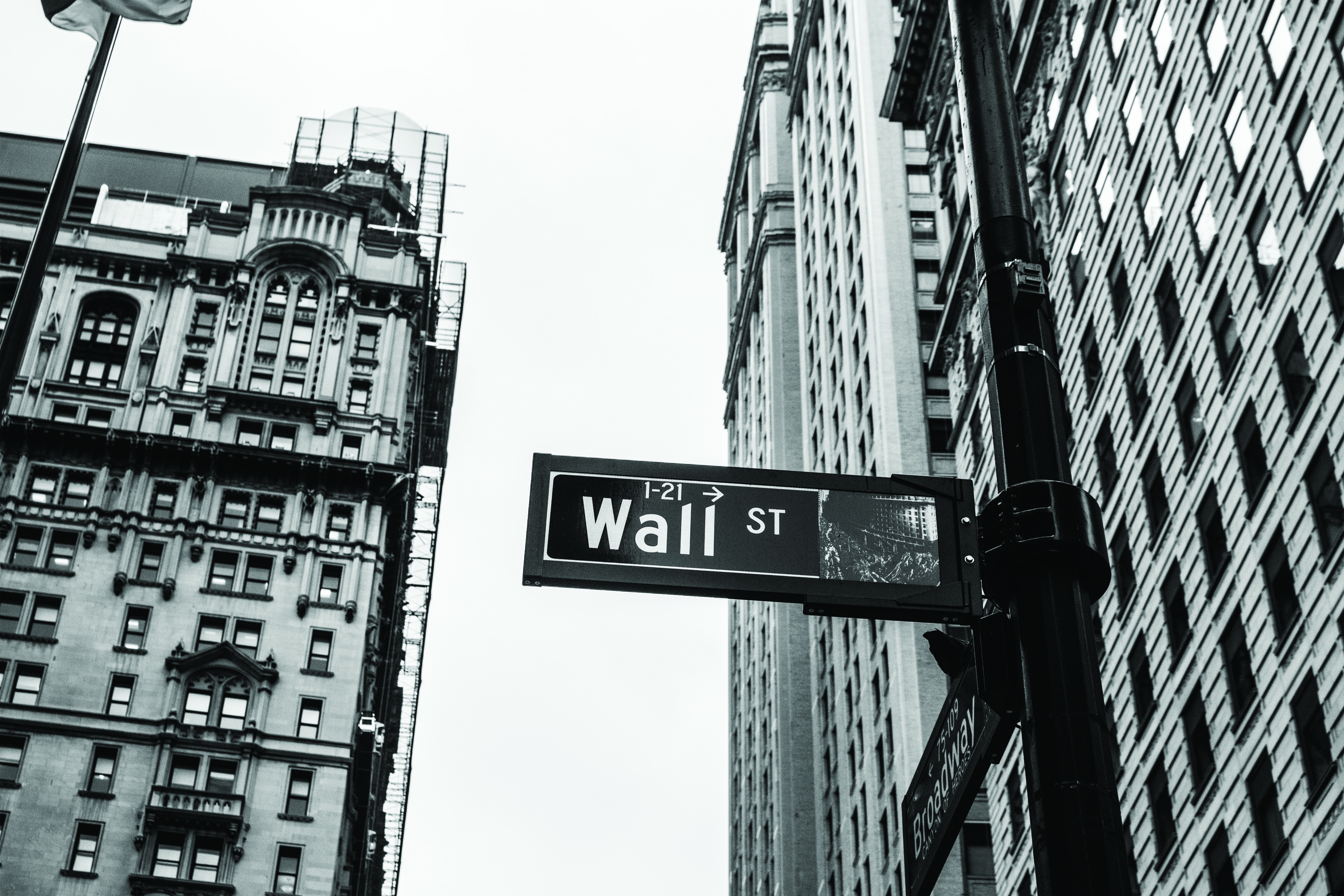 Chris Li 2016